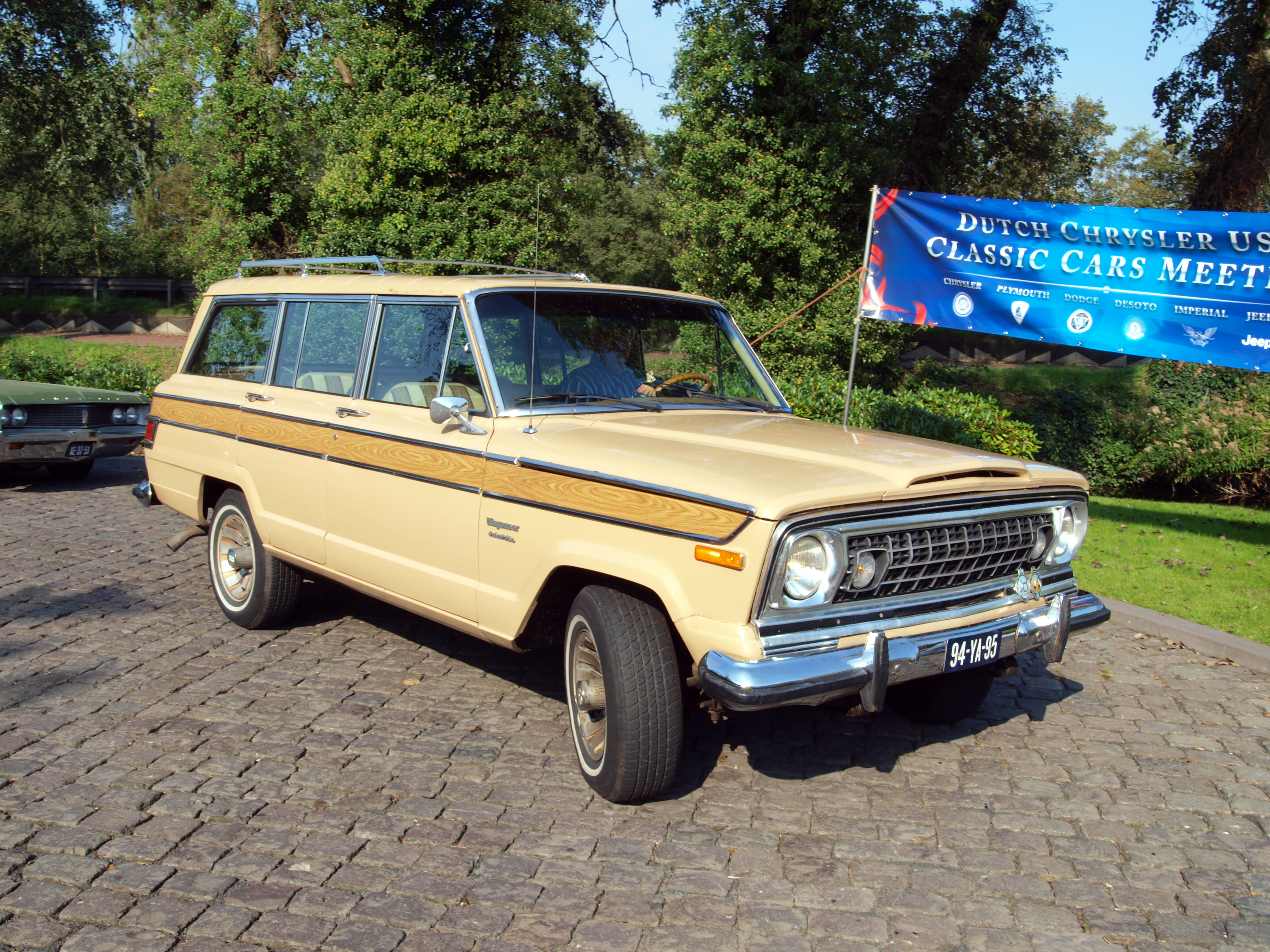 Photographed at the premmesis of the Louwman museum, The Hague, The Netherlands. OLYMPUS DIGITAL CAMERA